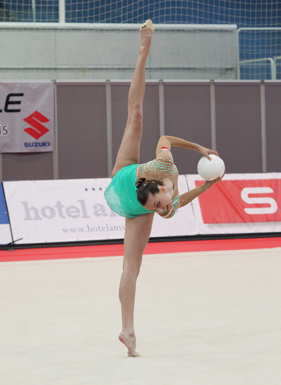 Grand Prix Rhythmic Gymnastics in Austria (Hard) 2012. Joanna Mitrosz POL.